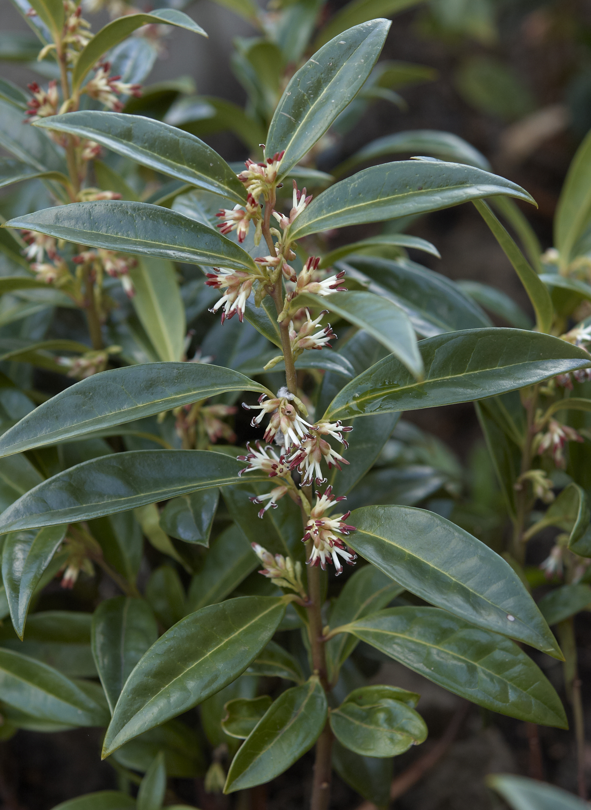 Sarcococca hookeriana 'humilis' (photo taken in Belgium)